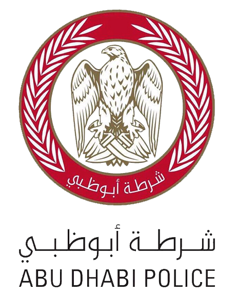 Official emblem of Abu Dhabi Police